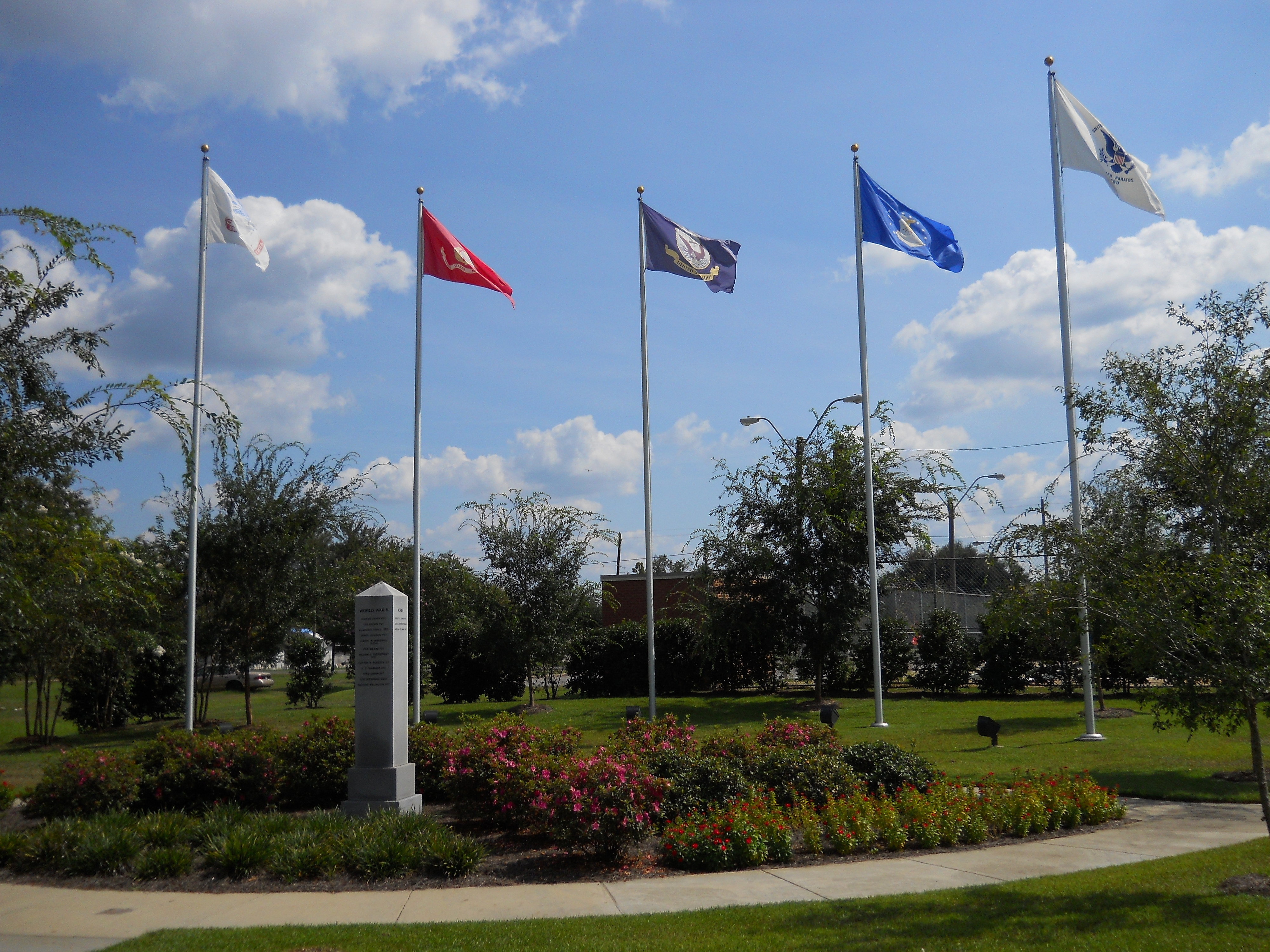 Memorial Garden at African American Military History Museum in Hattiesburg, Forrest County, Mississippi, USA.